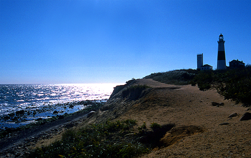 MONTAUK POINT LIGHTHOUSE, LONG ISLAND, NY